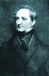 Portrait of Henry Hallam, (9 July 1777 – 21 January 1859), English historian.